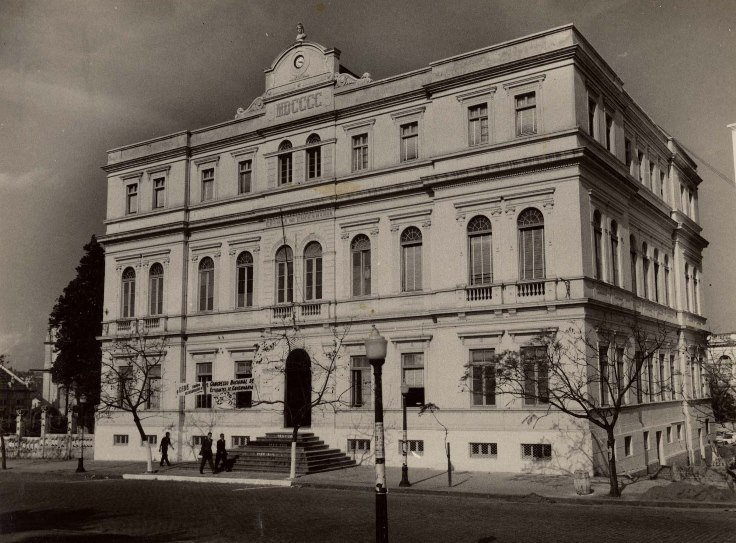 Engenharia antiga